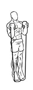 an exercise of calves